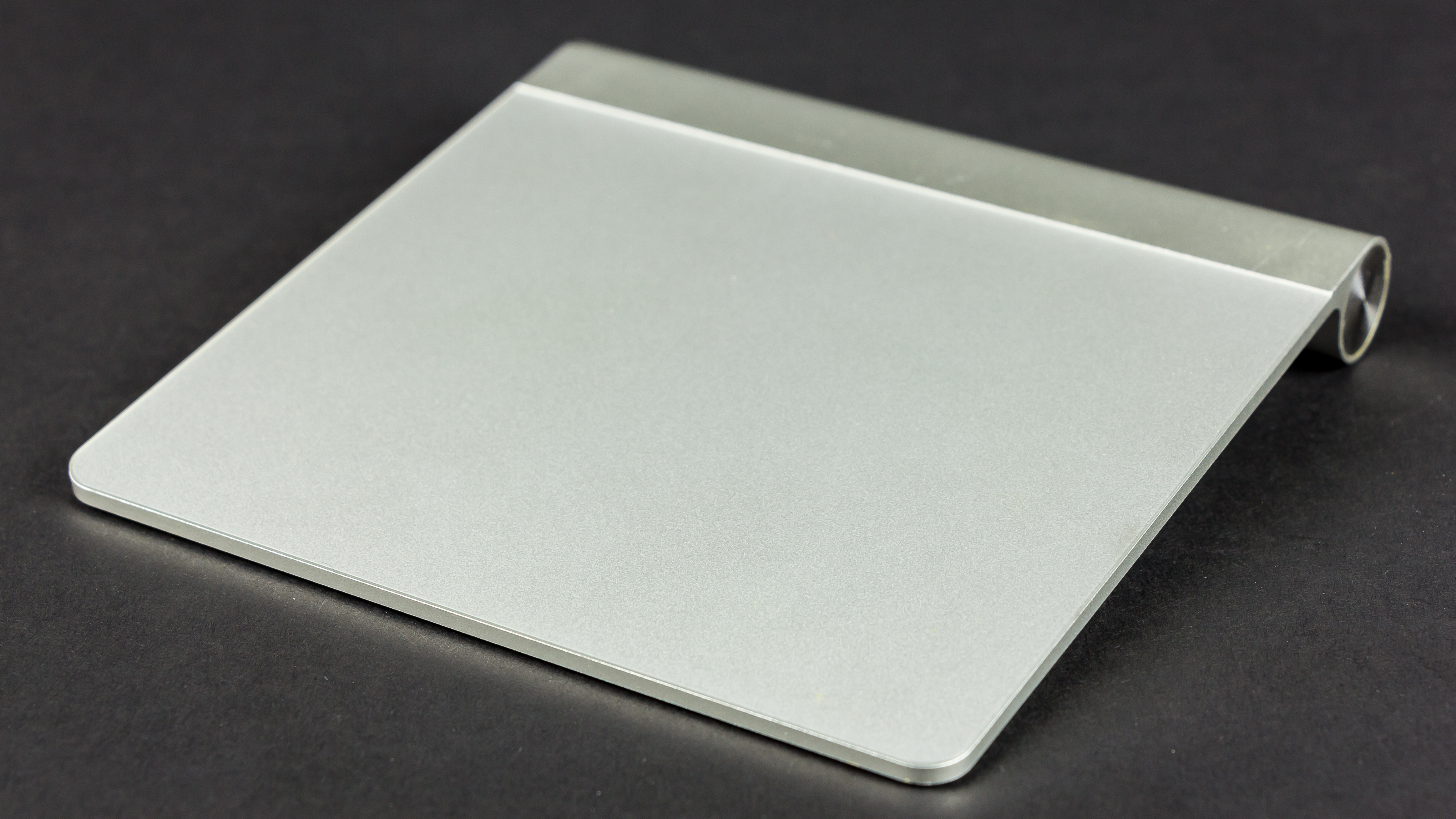 Apple Magic Trackpad